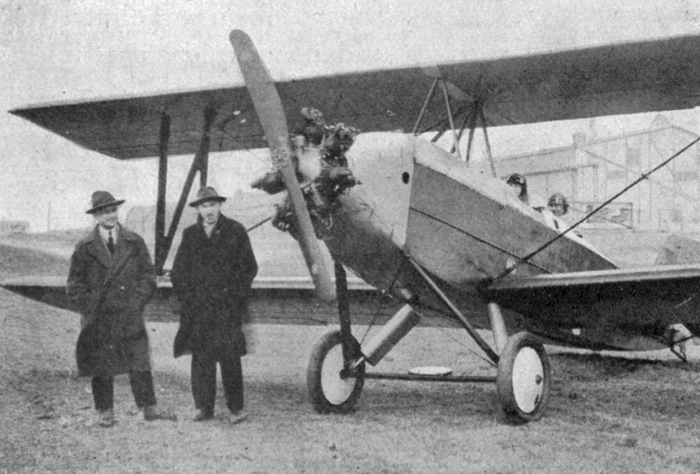 Bartel BM-4d photo from L'Aéronautique April,1929